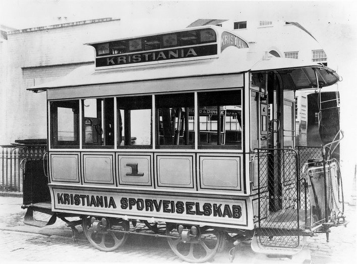 Kristiania Sporveisselskab's first horsecar.